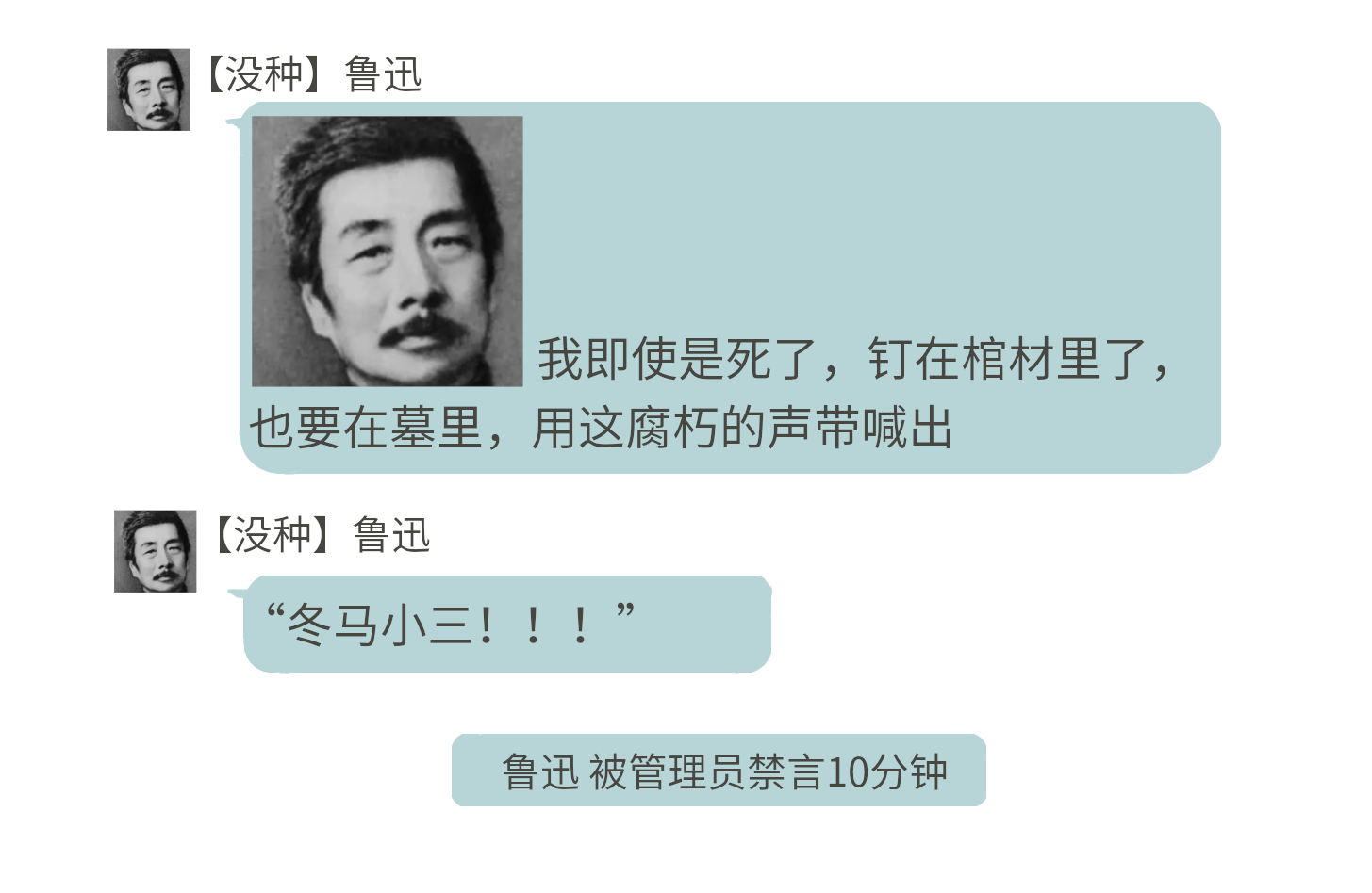 A picture shows a meme about White Album 2 and Lu Xun.